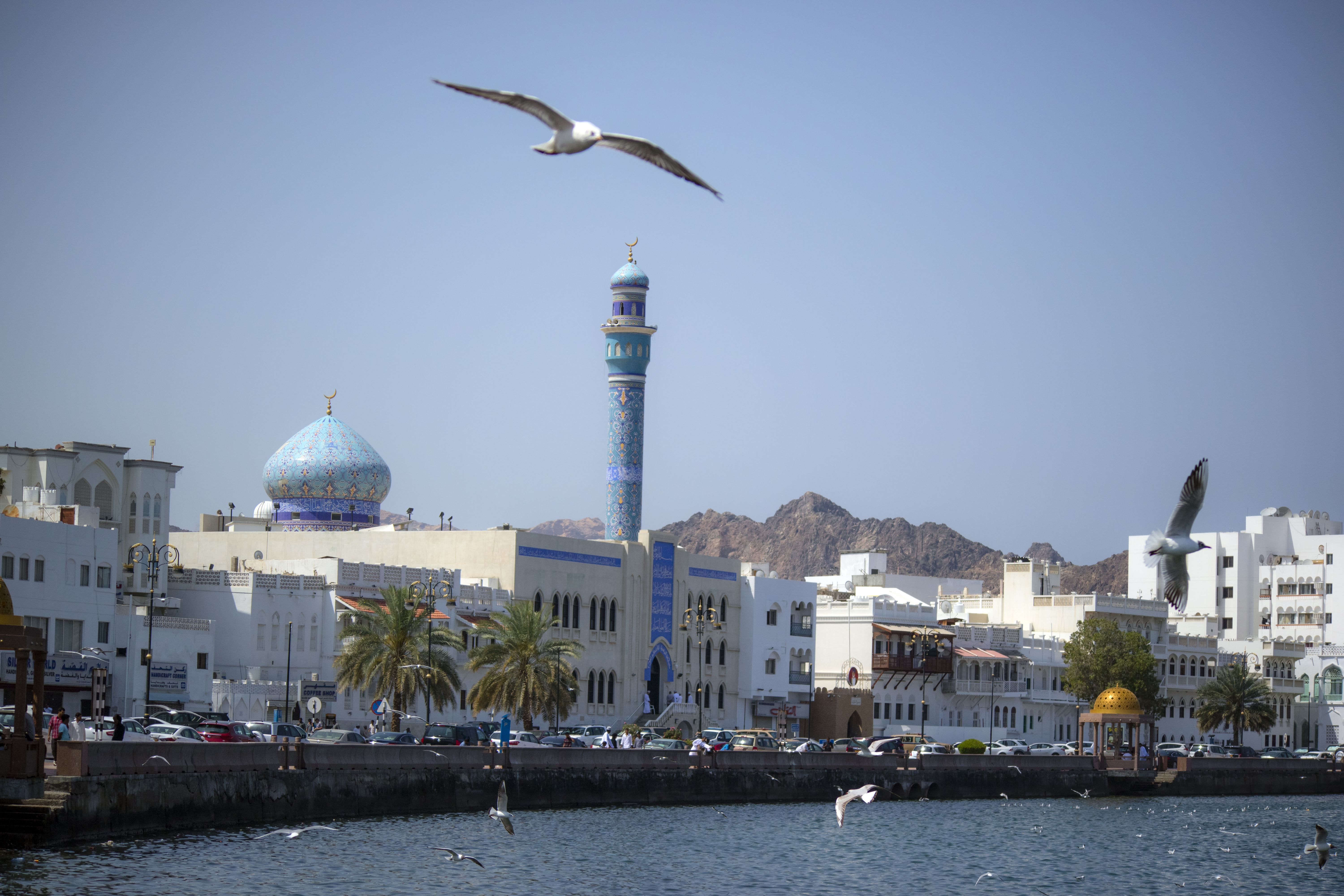 Muscat (Arabic: مسقط) is the capital and largest city of The Sultanate of Oman. It is the largest city in the mintaqah (governorate) of Muscat. The city of Muscat has a population of 650,000 (2005). The official language is Arabic.